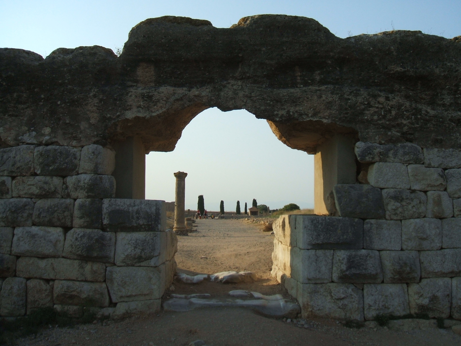 Empuries Archaeological Site (Catalunya, Spain) : Roman Town ; Southern Gate leading to the Cardo Maximus.